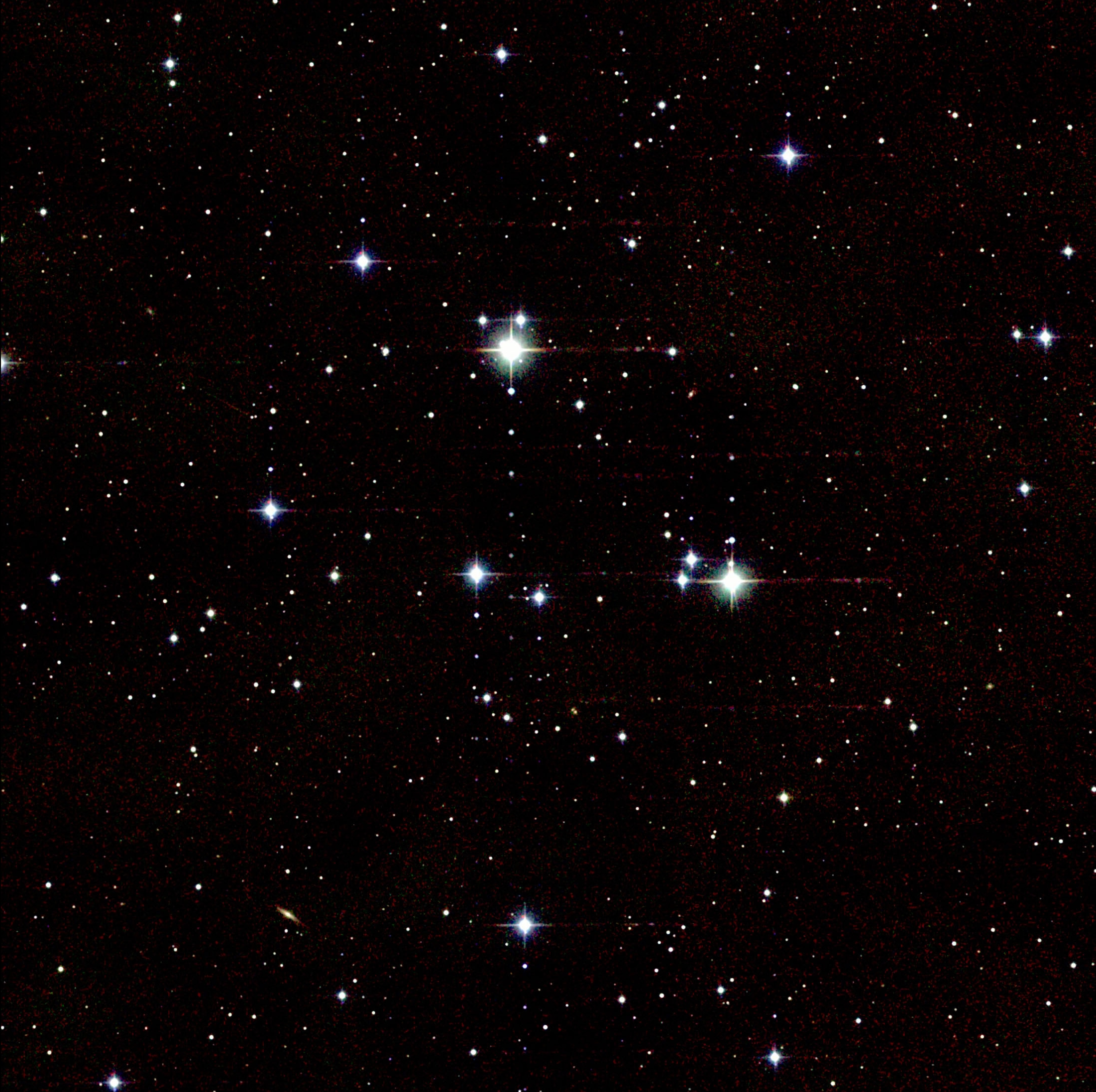 Praesepe: the open cluster Messier 44